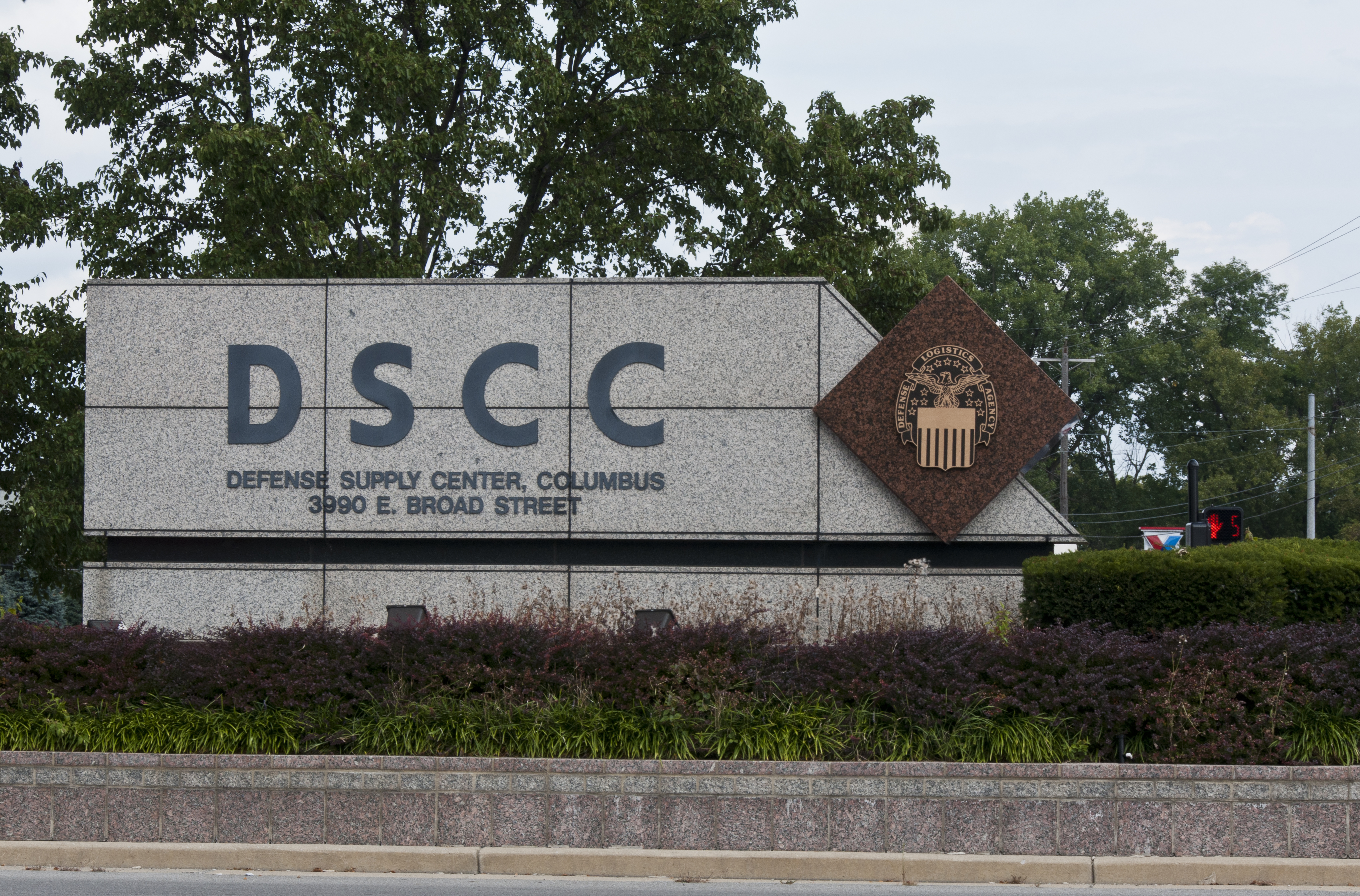 The Defense Supply Center Columbus. It is located in the Columbus, Ohio suburb of Whitehall. The base currently known as the DSCC was opened in 1918 as the Columbus Quartermasters Reserve Depot. During World War 2 the center served as the largest military supply installation in the world.